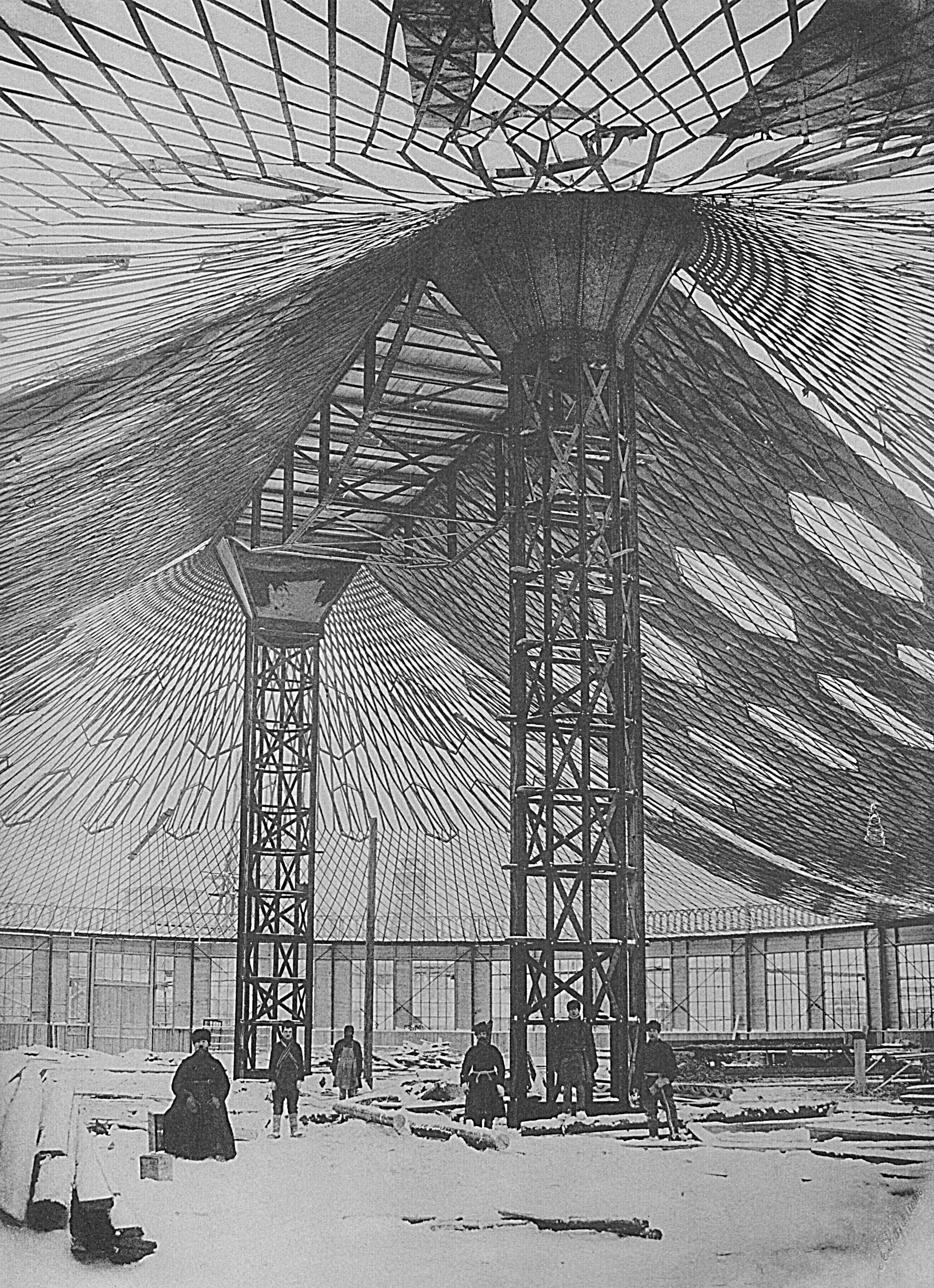 The Tensile Steel Diagrid Shell of the Oval Pavilion by Vladimir Shukhov, 1895